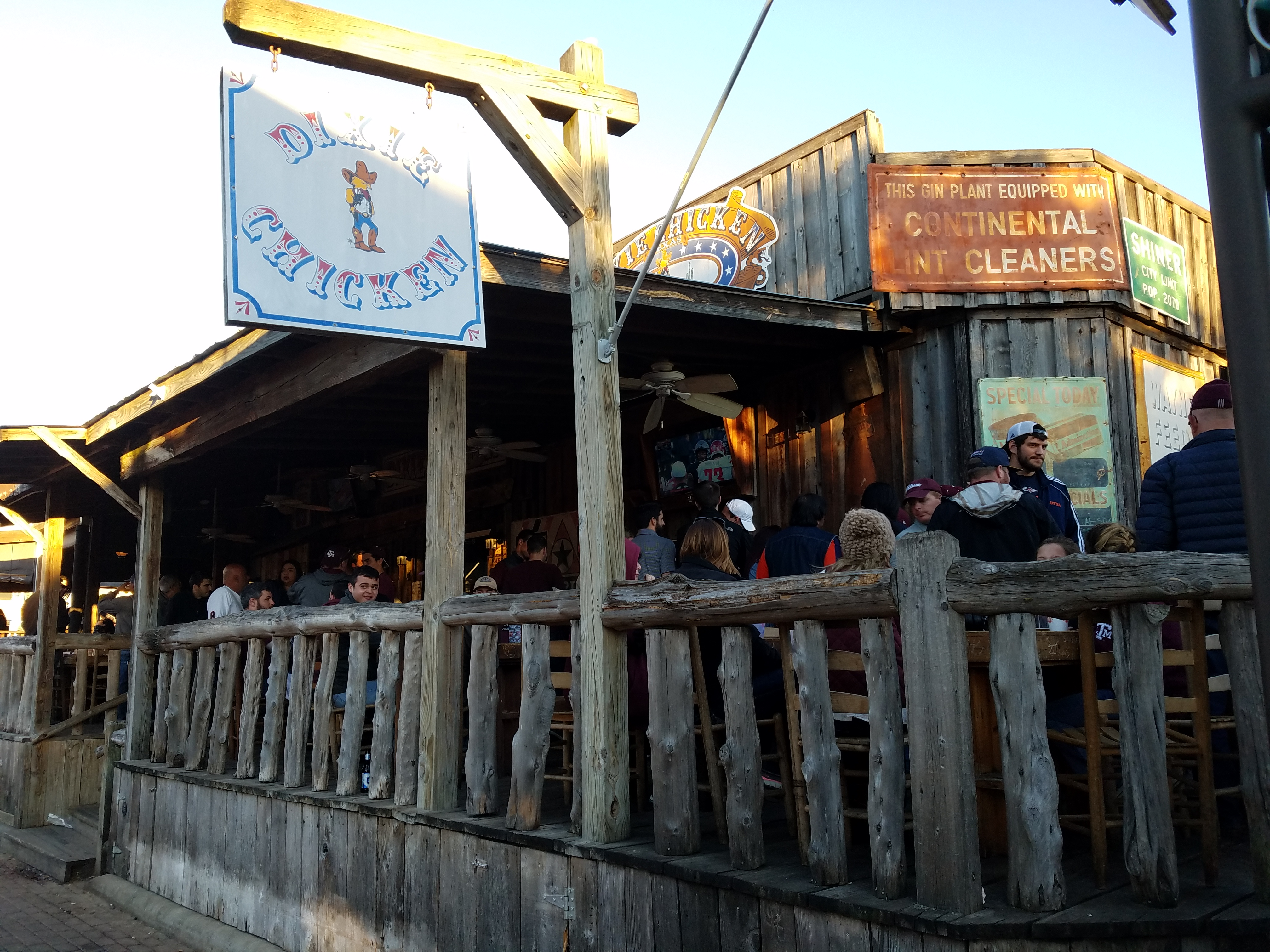 Some of the most popular days at the Dixie Chicken are Aggie football game days. Here you see the back porch full of fans ready for the game.